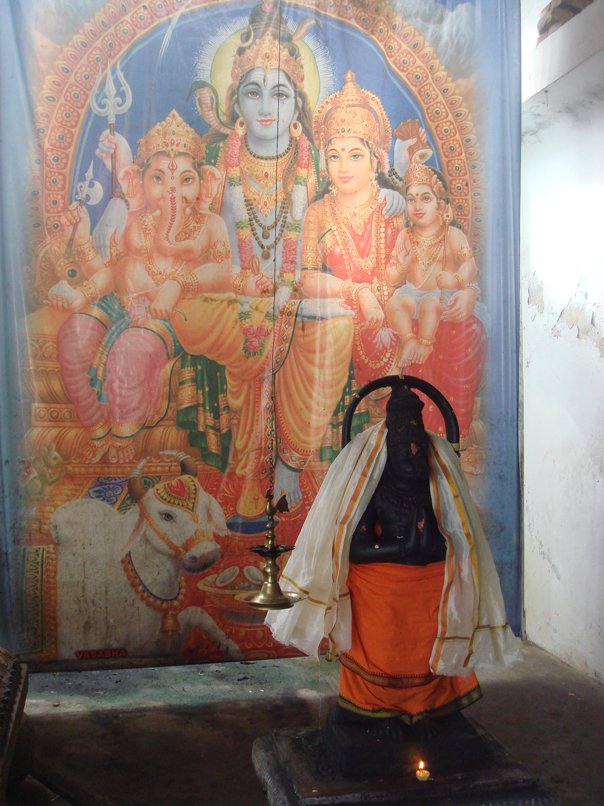 Munneswaram Shiva family